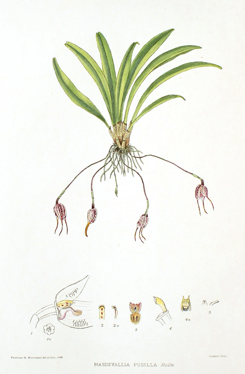 Illustration of Dracula pusilla from Florence H. Woolward: The Genus Masdevallia